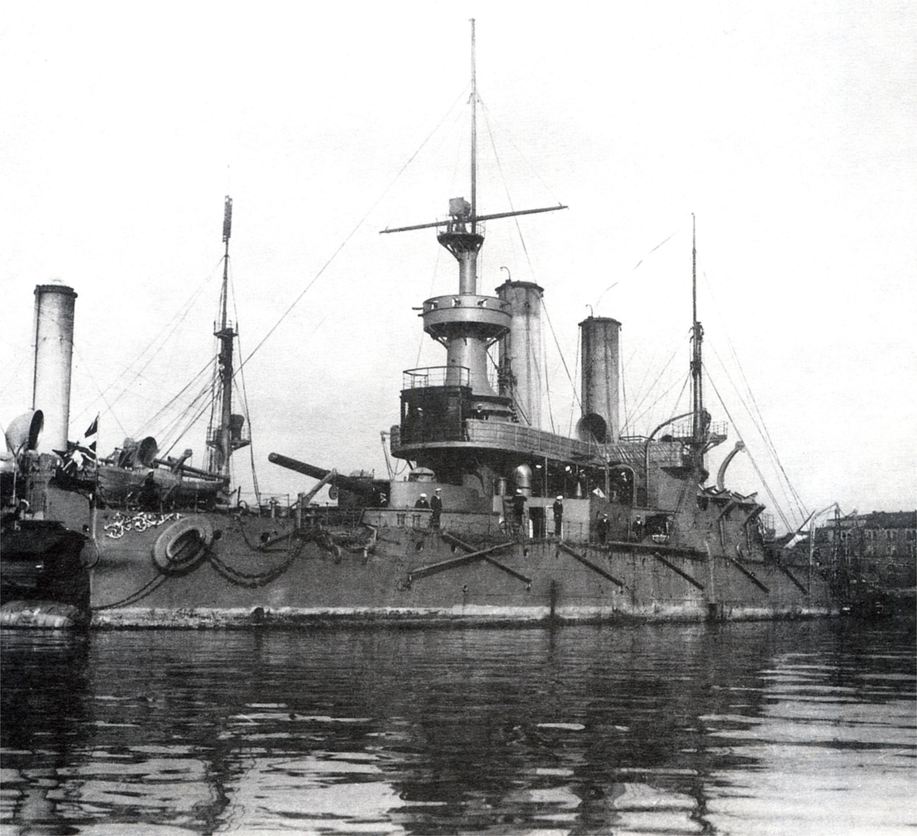 Imperial Russian coastal battleship Admiral Senyavin at Kronstadt, autumn 1896.